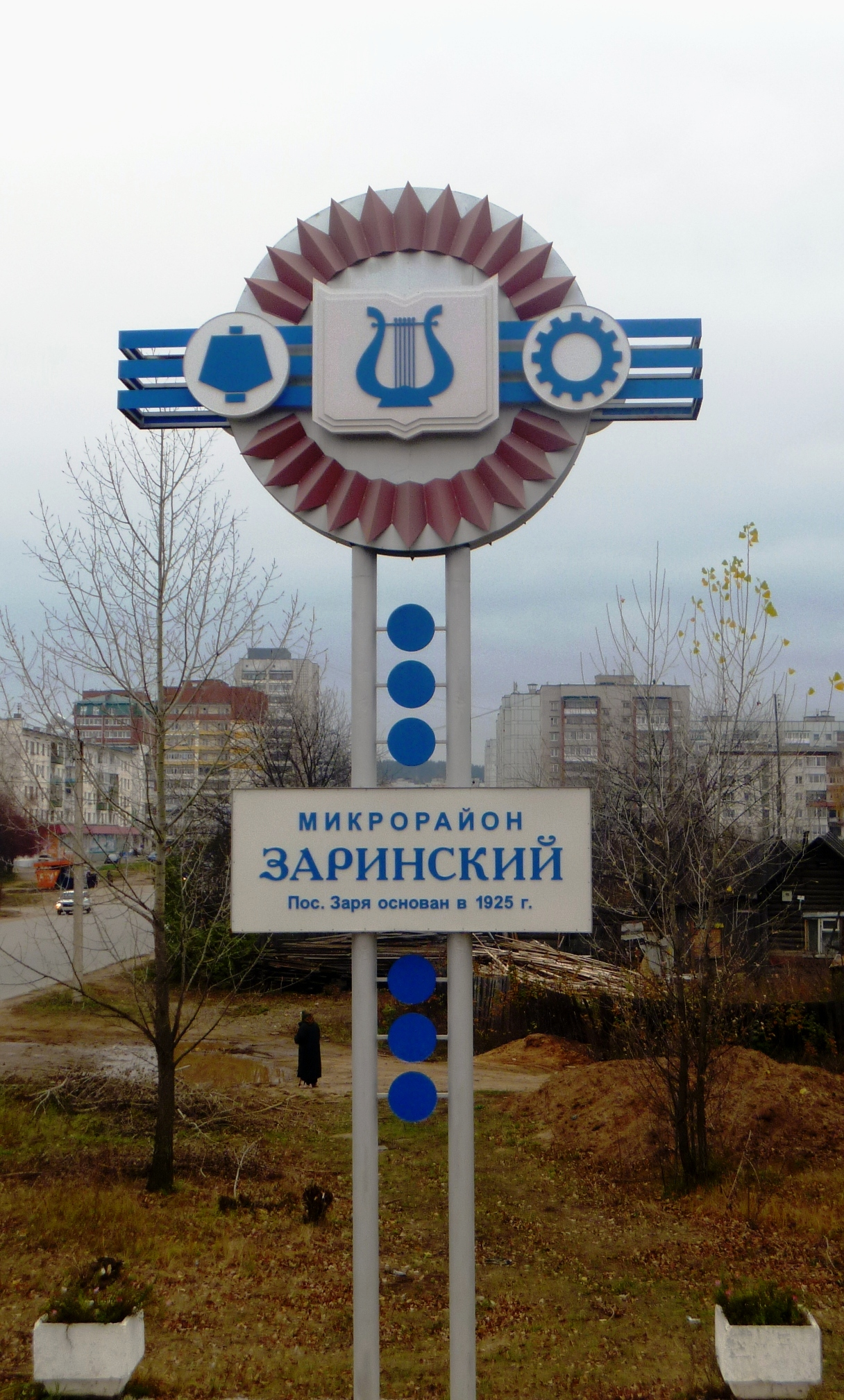 The symbol